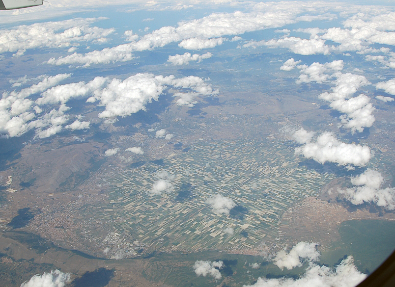 Aerial photographs